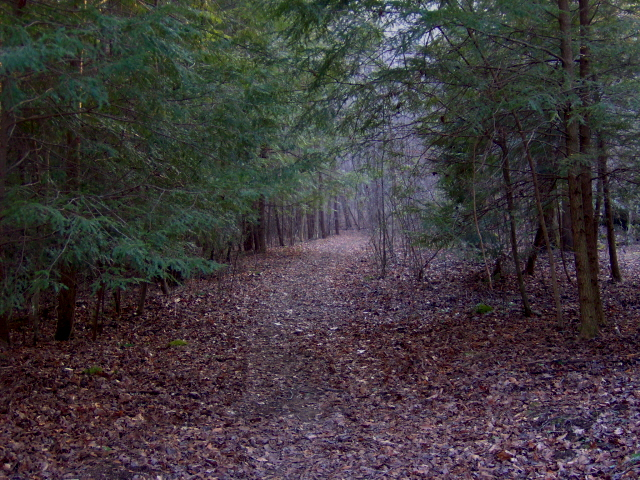 The Caney Fork Trail at the base of Scott's Gulf in White County, Tennessee, located in the Southeastern United States. The trail parallels an old wagon road and miners' path, and connects the Polly Branch and Virgin Falls trail systems.